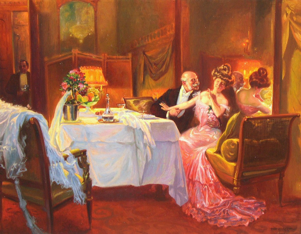 The Seduction